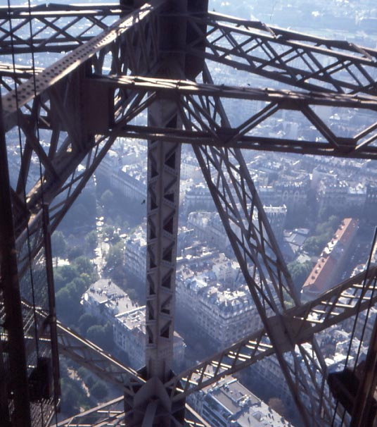 Eiffel Tower in Paris (France)